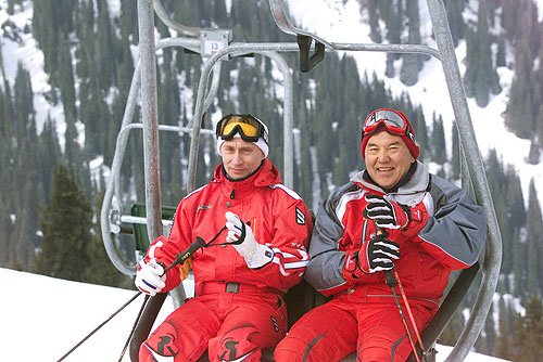 ALMATY. with Kazakhstan\'s President Nursultan Nazarbaev after an informal CIS summit talks.